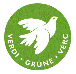 Symbol of the South Tyrolean Green Party